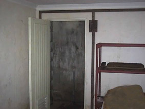 Tranwell Bunker inside